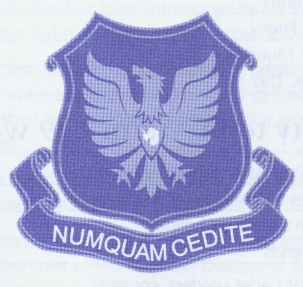 House of the Barker College, Junior School